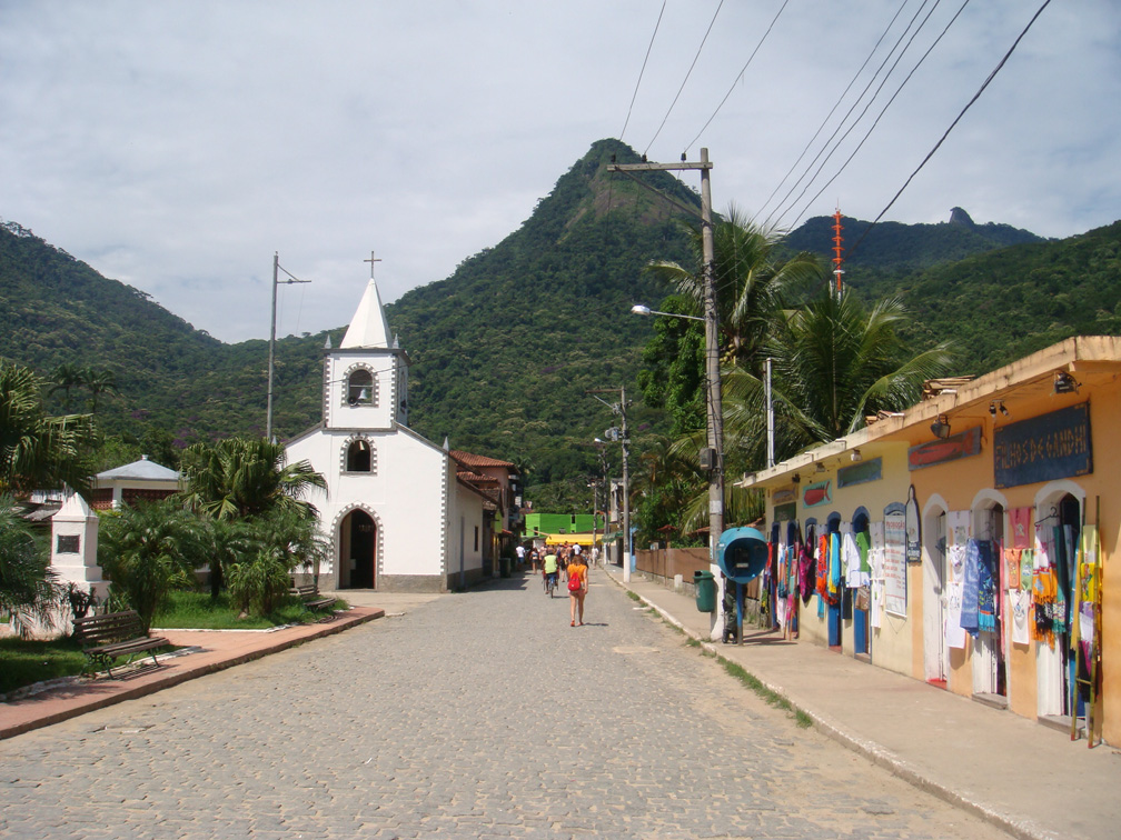 Centre of Vila do Abraão in Ilha Grande, Brazil